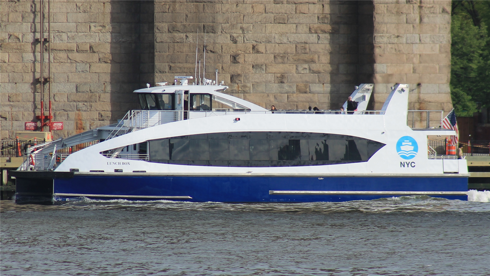 NYC Ferry Lunch Box below the Brooklyn Bridge, May 2017.